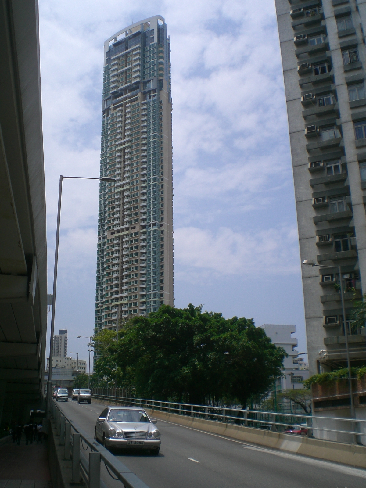 大角咀通州街 遠眺zh:亮賢居